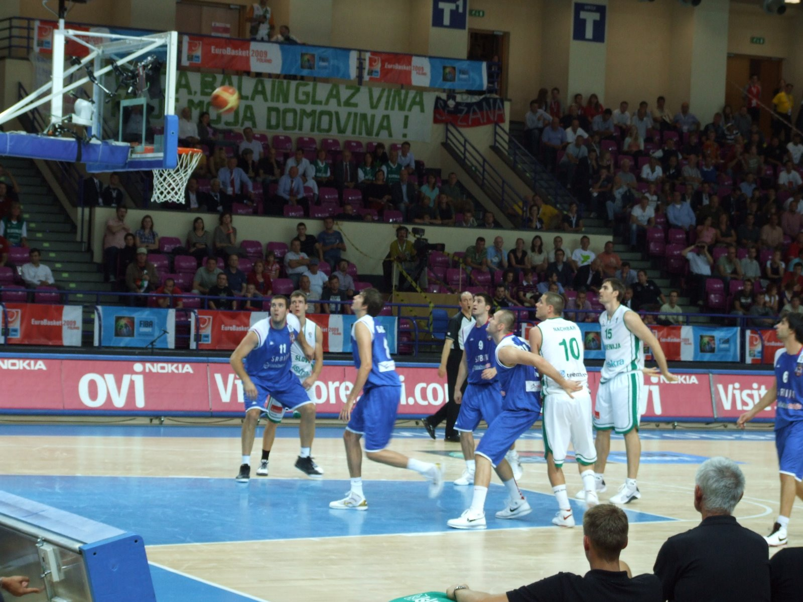 Slovenia vs. Serbia at EuroBasket 2009.